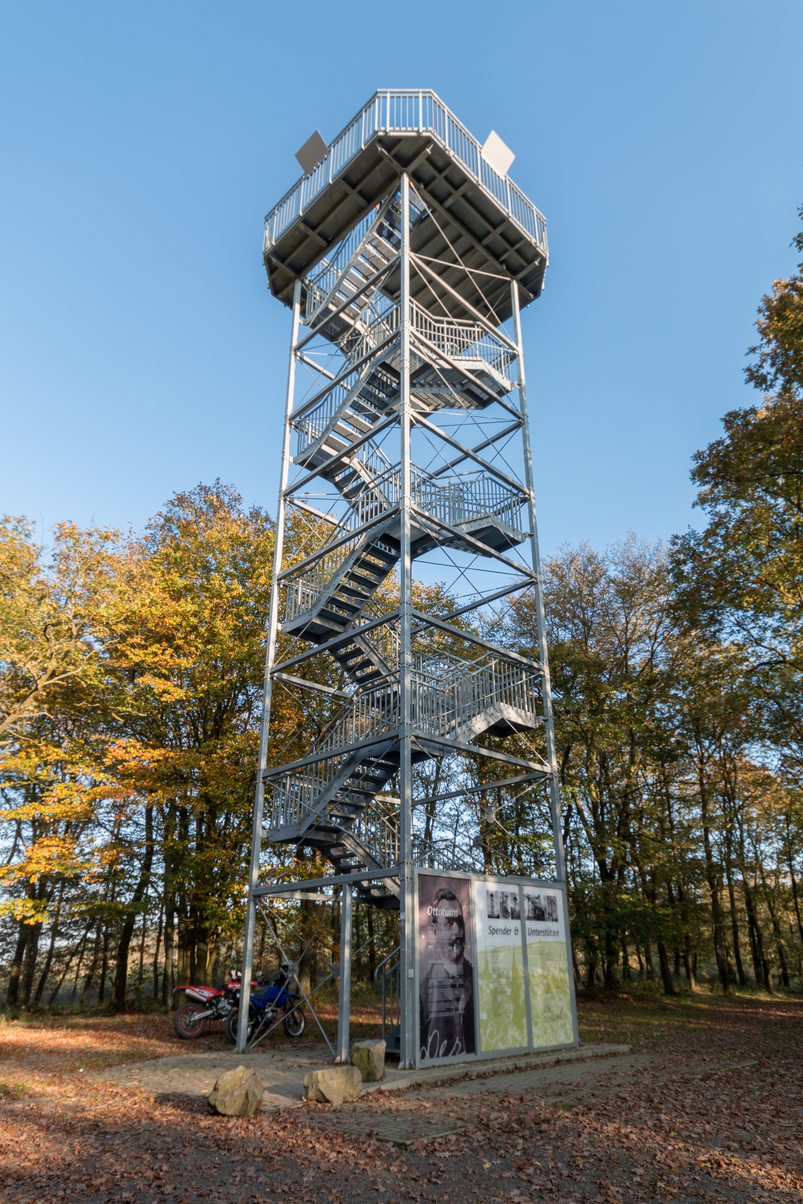 The Ottoturm near Kirchen at the Sieg